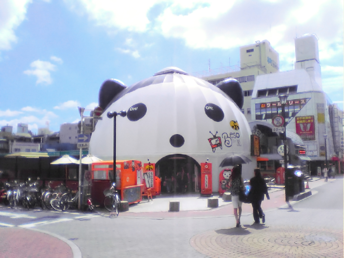 Picture of Oh-kun Dome in Okayama